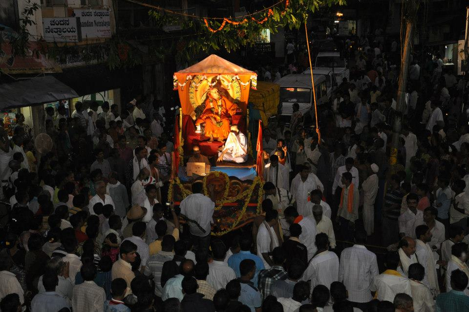 Kesavananda Bharathi Swamiji's Procession by the disciples marking the end of his 52nd Chaturmasya of the year 2012 in Kumta, Karnataka, India. Photo taken by me.